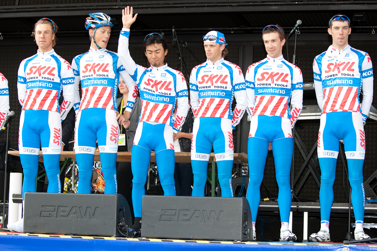 Skil-Shimano, Eschborn-Frankfurt City Loop 2009